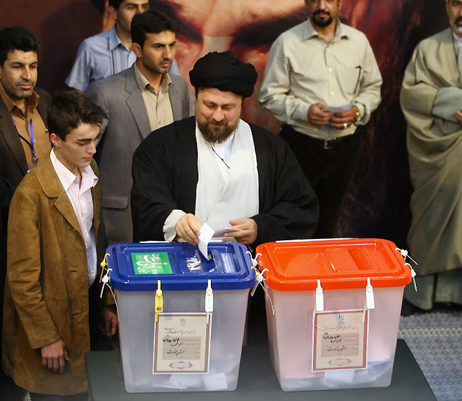 Hassan Khomeini and his son are voting in 2013 Iranian presidential election in Shemiranat election zone.